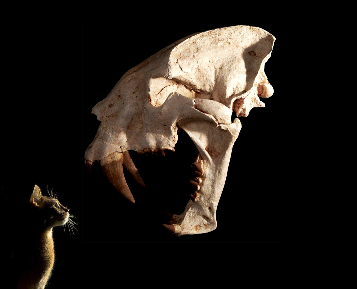 comparison of size between the largest machairodont, machairodus giganteus, specifically the male gender, and the common house cat, felis catus or felis silvistris catus